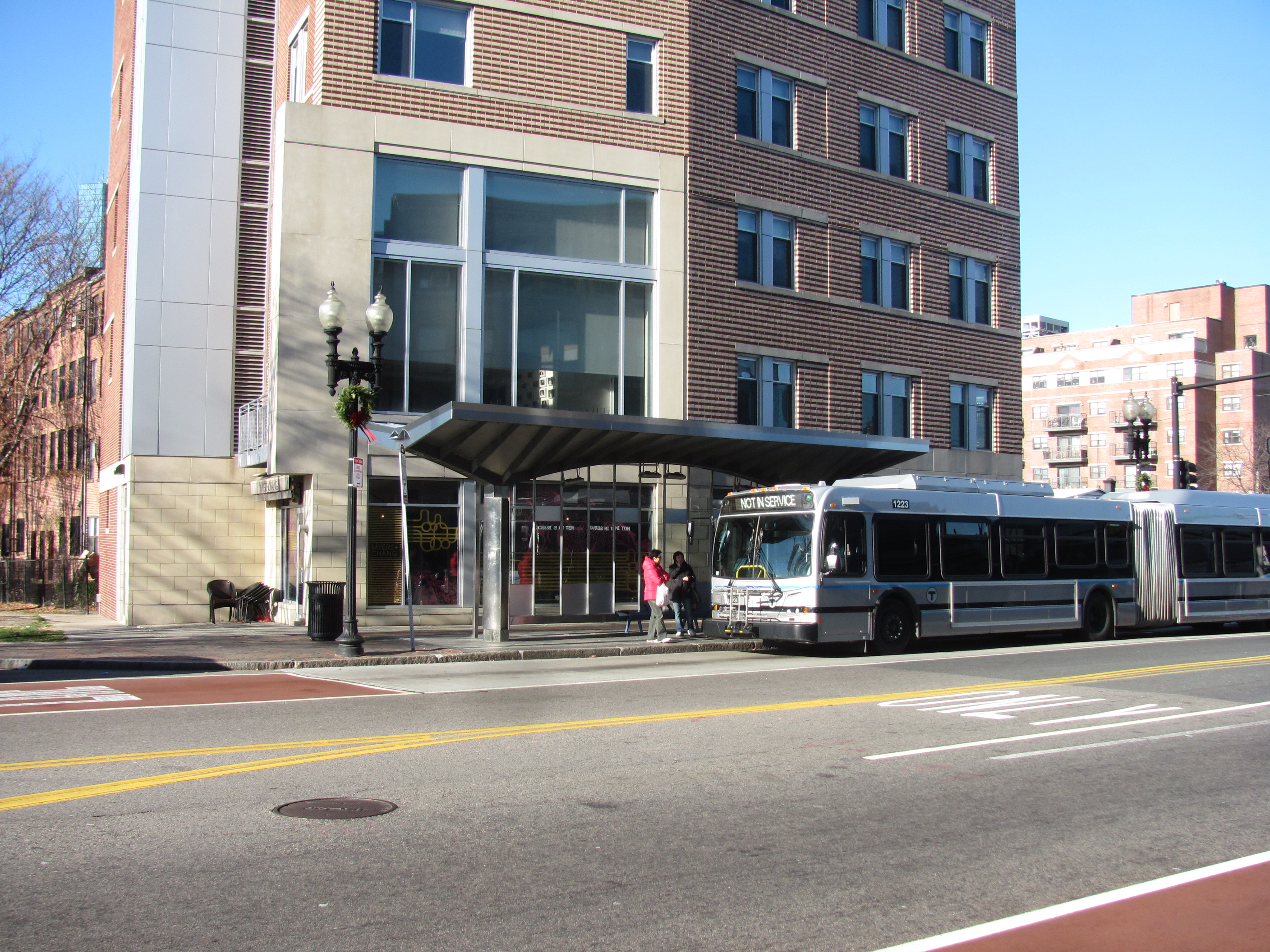 East Berkeley Street Outbound, Boston Massachusetts